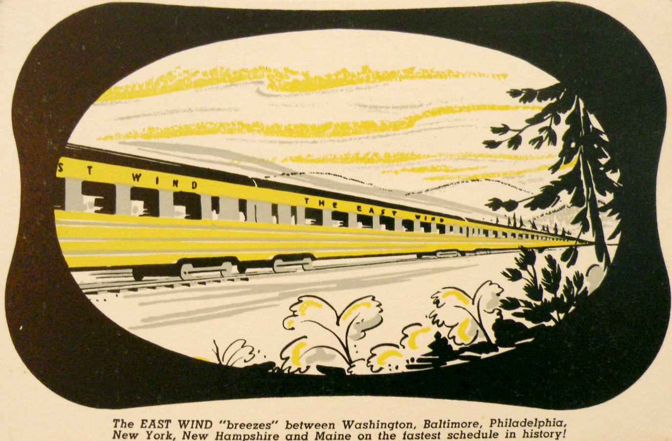 Postcard depiction of the seasonal passenger train The East Wind. The train originated with the Pennsylvania Railroad, but traveled on both Boston & Maine and New Haven Railroad tracks for part of its journey between Maine and Washington, D.C. via New York and Philadelphia.